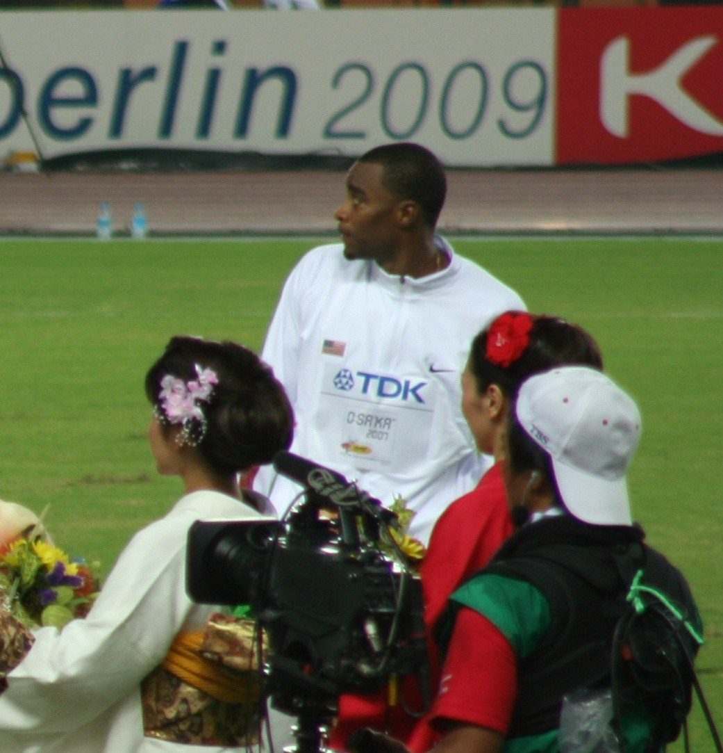 Crop of File:Osaka07 D3A Triple Jump VC.jpg to focus on Walter Davis